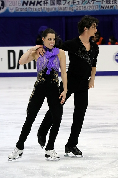 Tessa Virtue and Scott Moir at the 2016 NHK Trophy